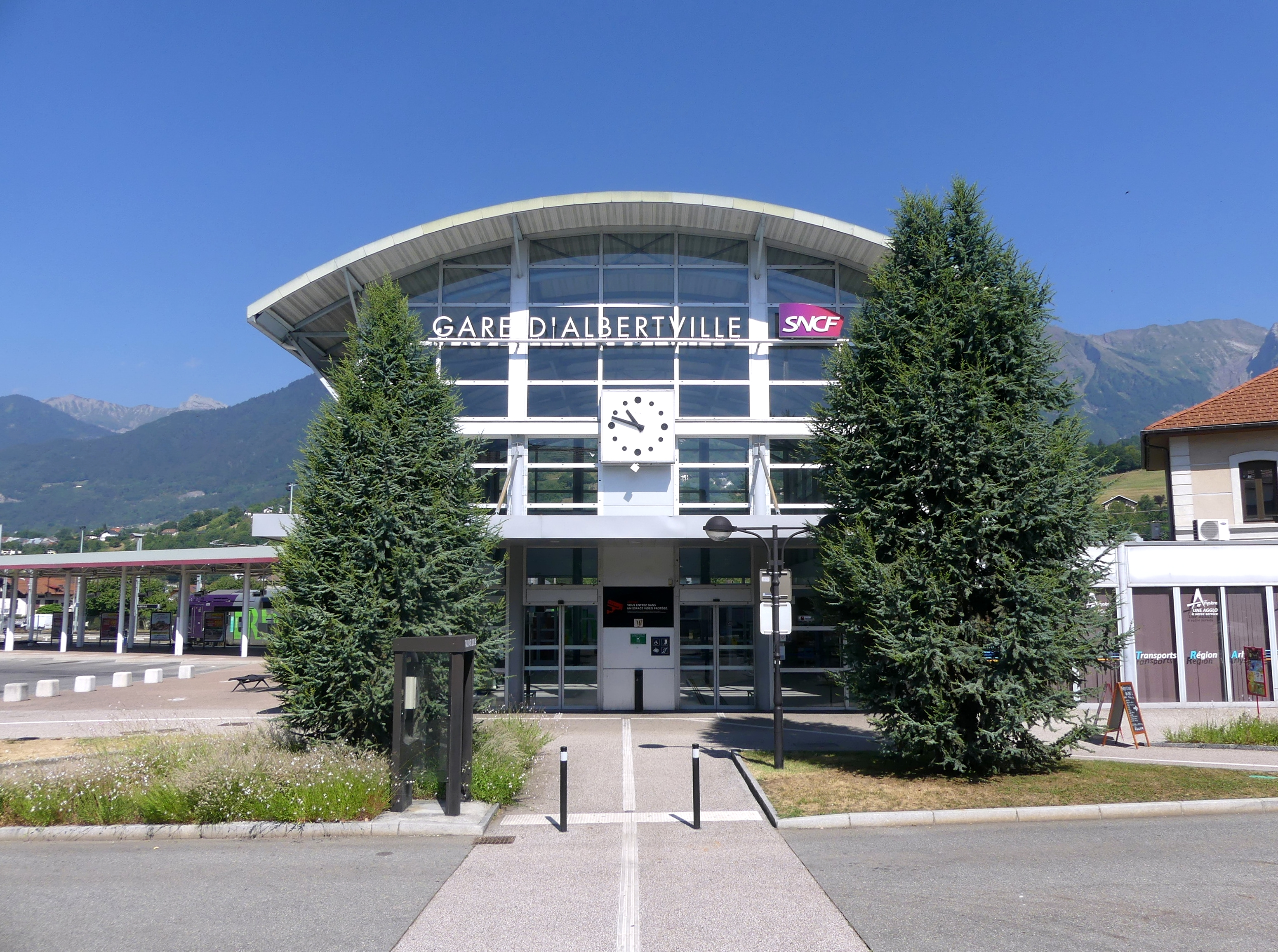 Sight, in summer, of Albertville railway station building, in Savoie.